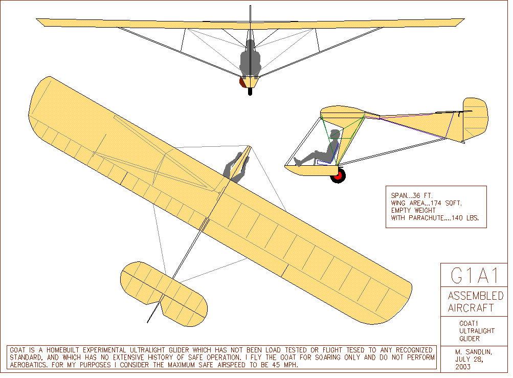 Technical drawing of the Sandlin Goat glider taken from the set of public domain drawings. Converted from .gif to .png file format.